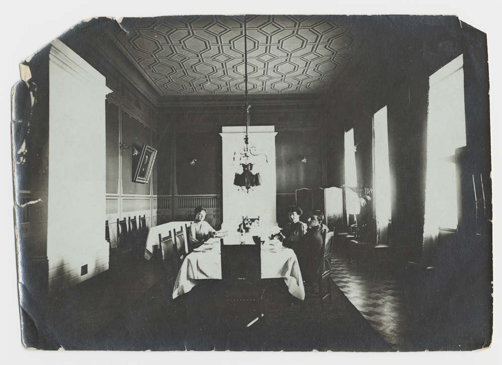 The dining room of the Hughes family house, Hughesovka, about 1900